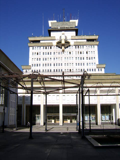 The tower of the National Palace of Culture in Ulaanbaatar, Mongolia. Photographer Gantuya